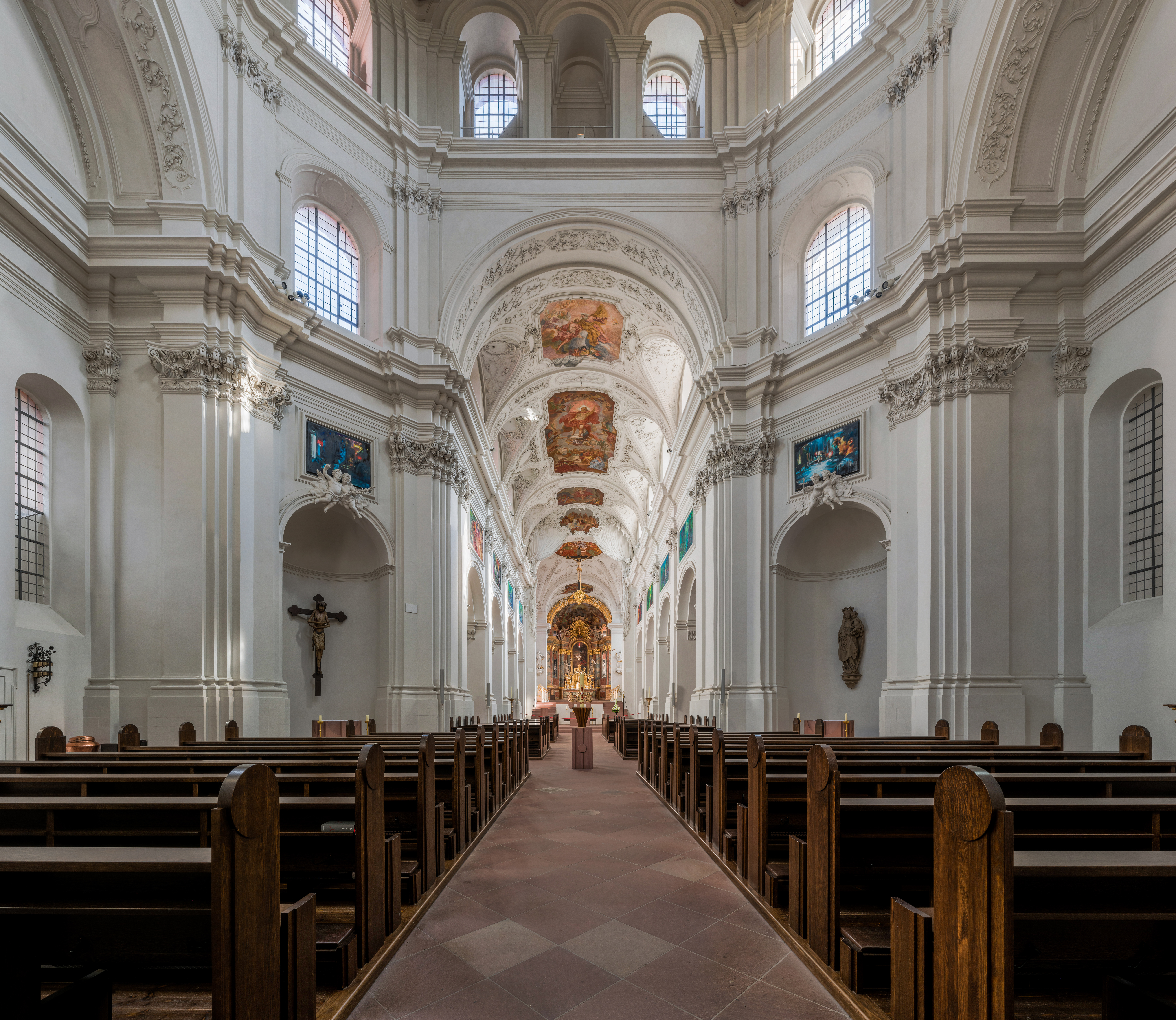 The nave of the Kollegiatstift Neumünster, Würzburg